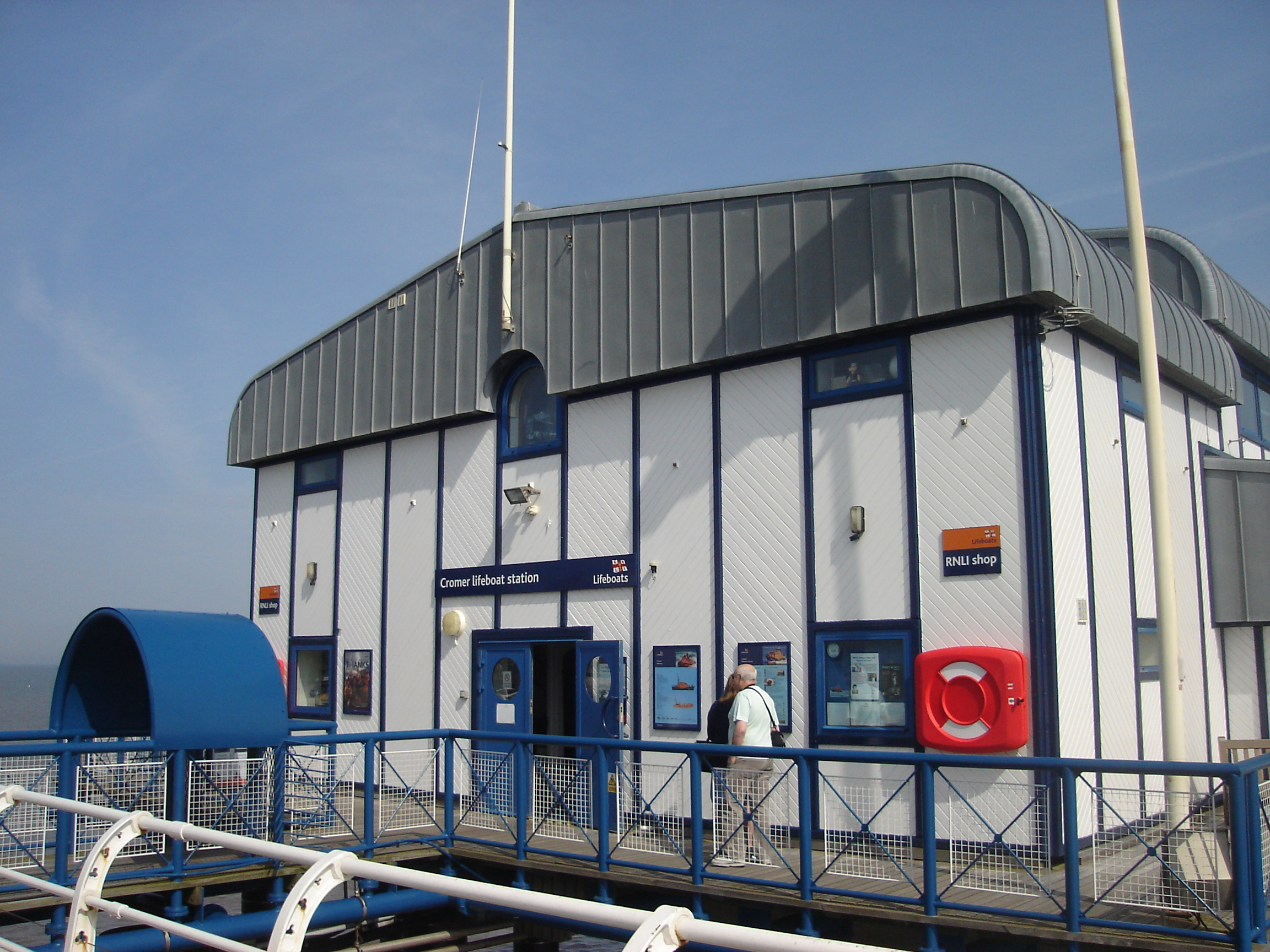 Picture of Cromer Lifeboat Station, Norfolk